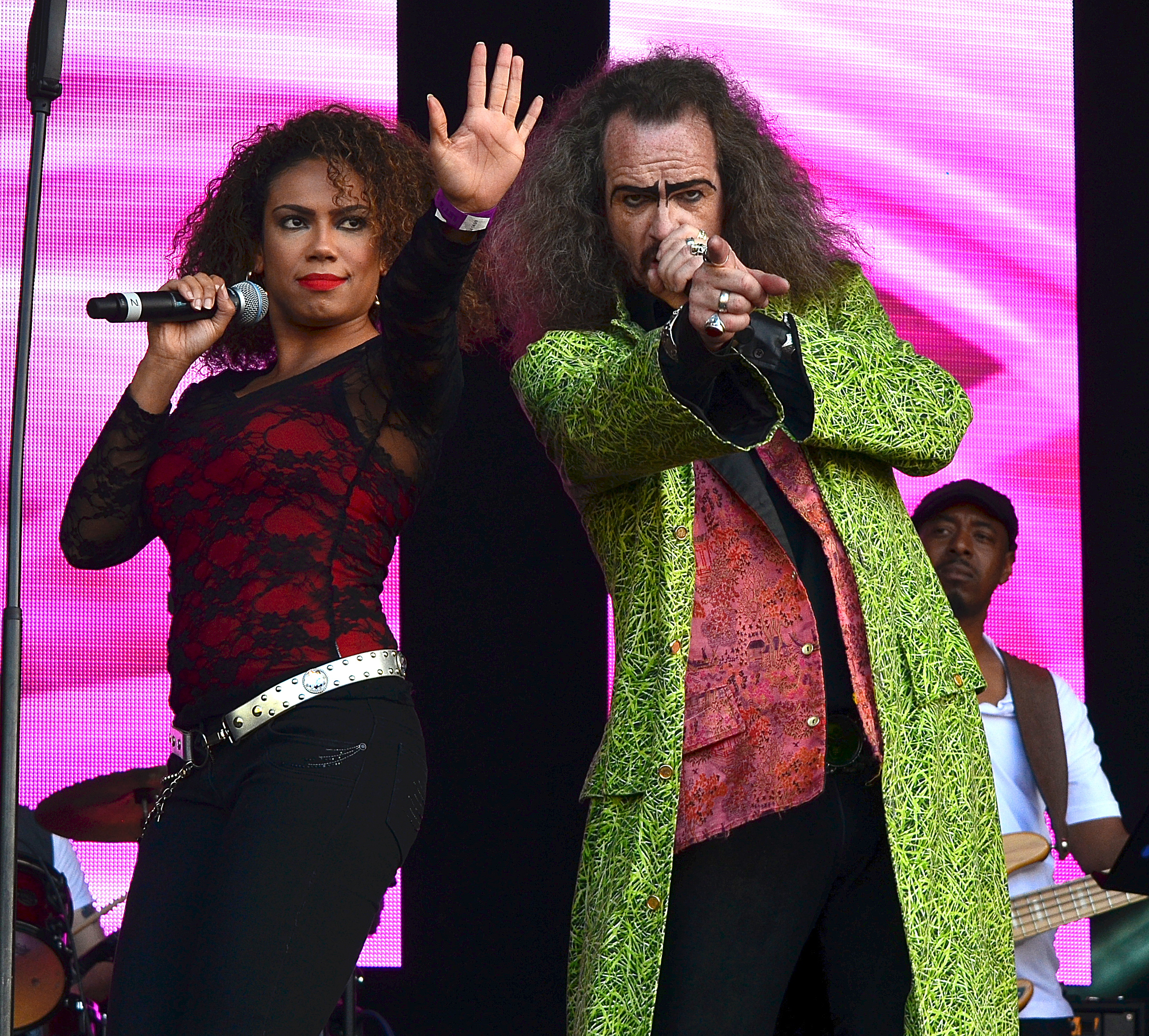 Clive Jackson (Right) lead singer from Doctor & The Medics, opening Let's Rock Bristol, UK on 7 June 2014.